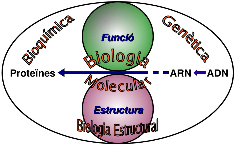 Scheme of the relationship of molecular biology with other fields of biology (Catalan)